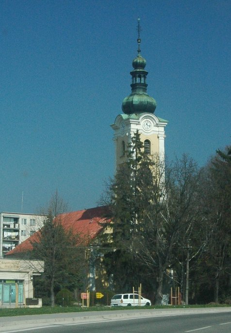 Lutheran church in Stará Turá, Nové Mesto nad Váhom district